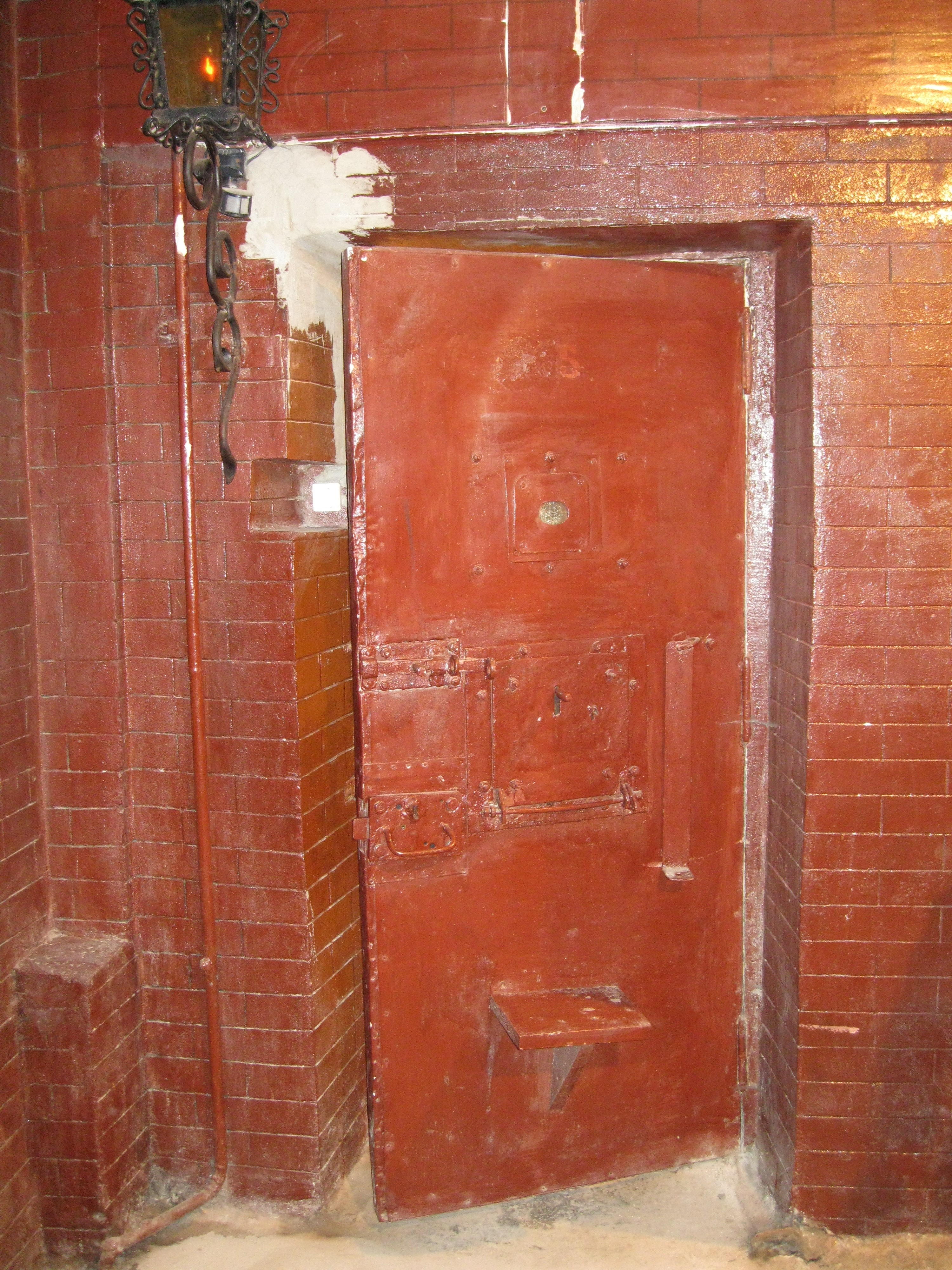 Vhod v kameru Kolchaka